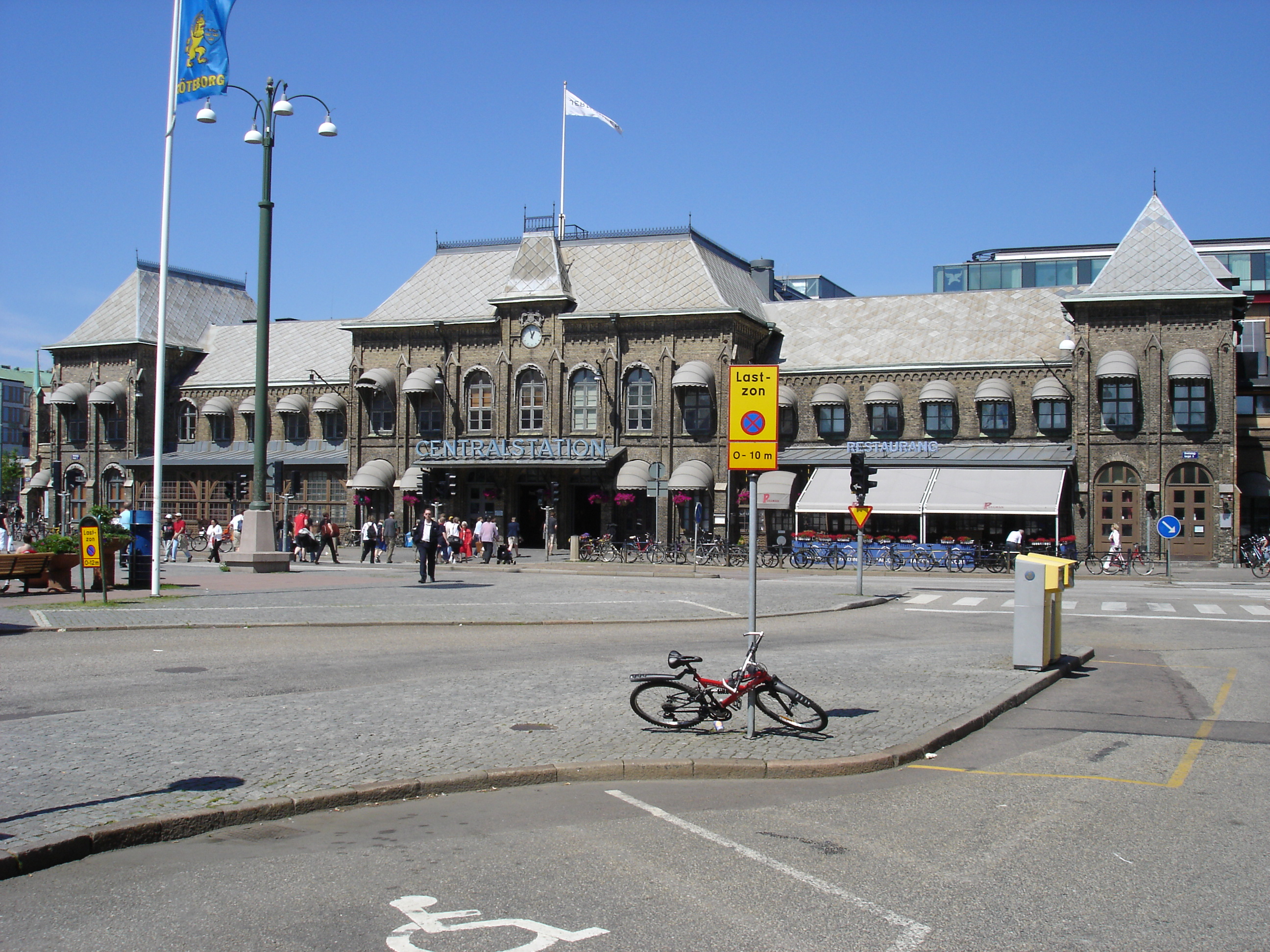 The old (but still in use) central train and bus station (refered to as 'Centralstationen') in Gothenburg, SE.